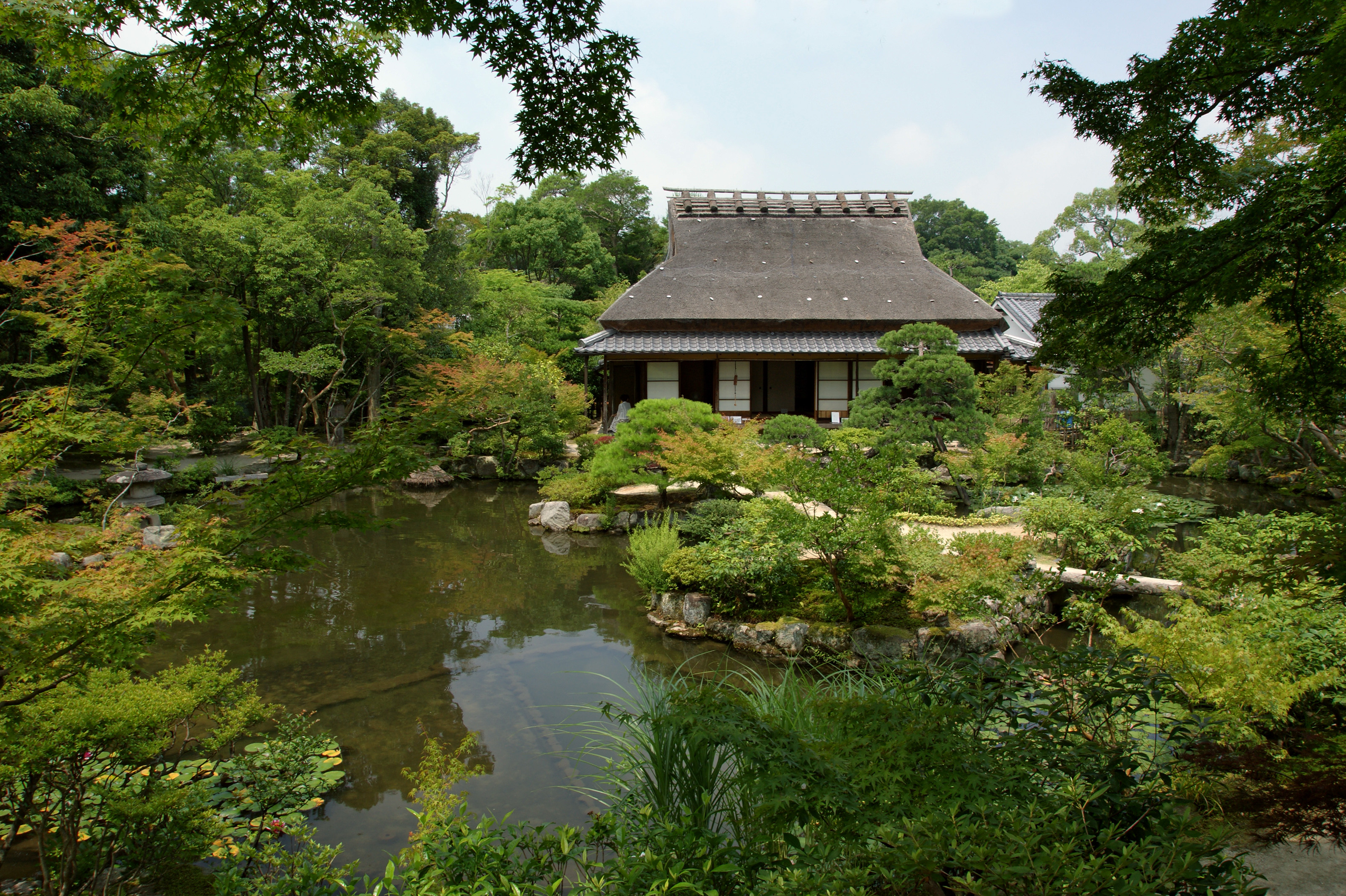 Isuien in Nara, Nara prefecture, Japan